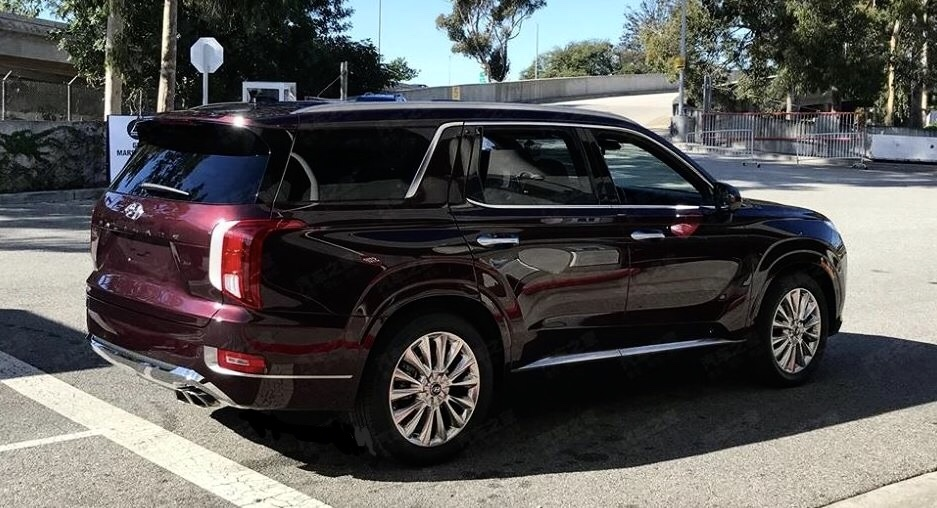 Hyundai Palisade rear